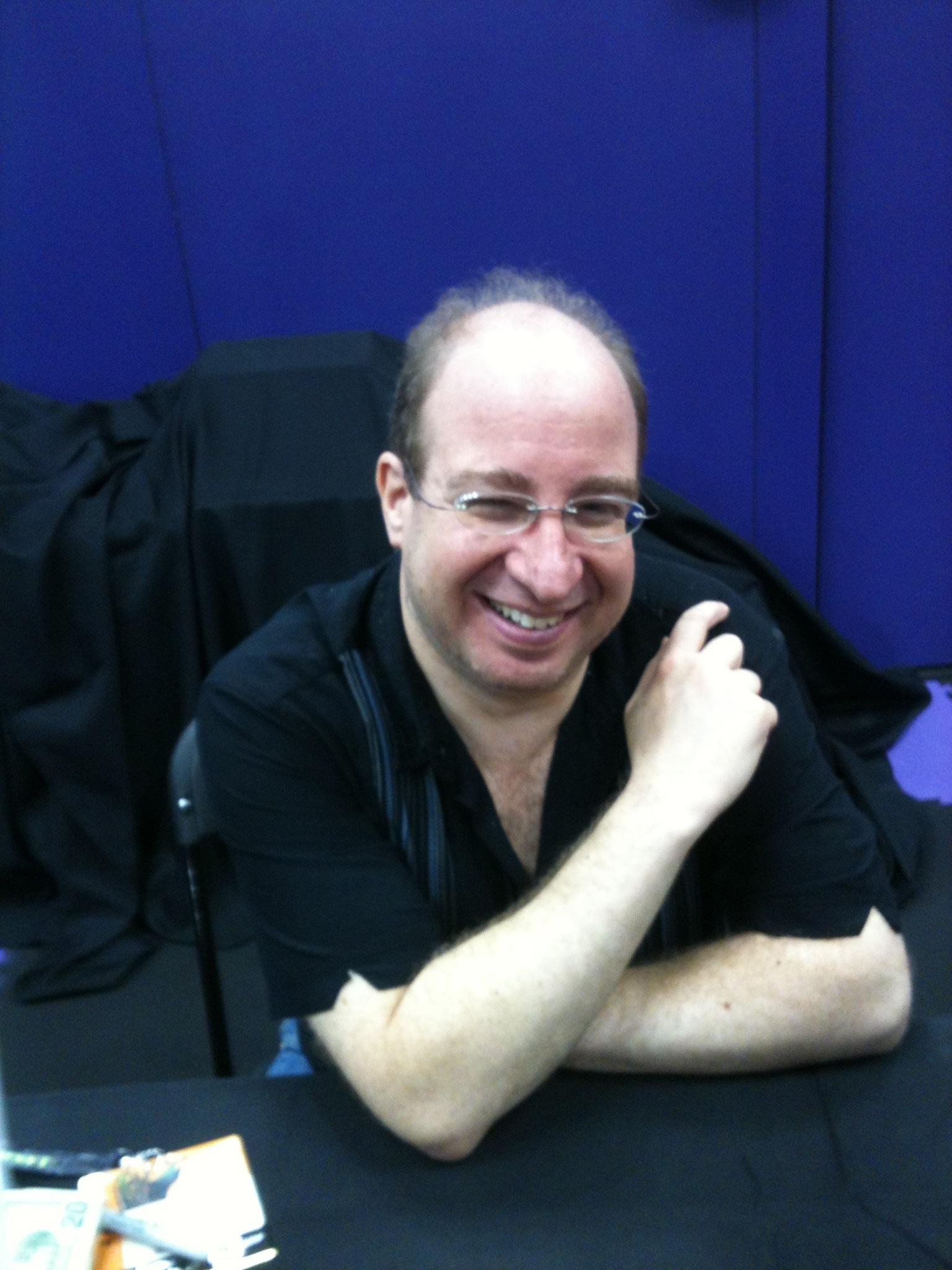 Game designer Mike Selinker at Gen Con Indy 2014 on August 15, 2014.